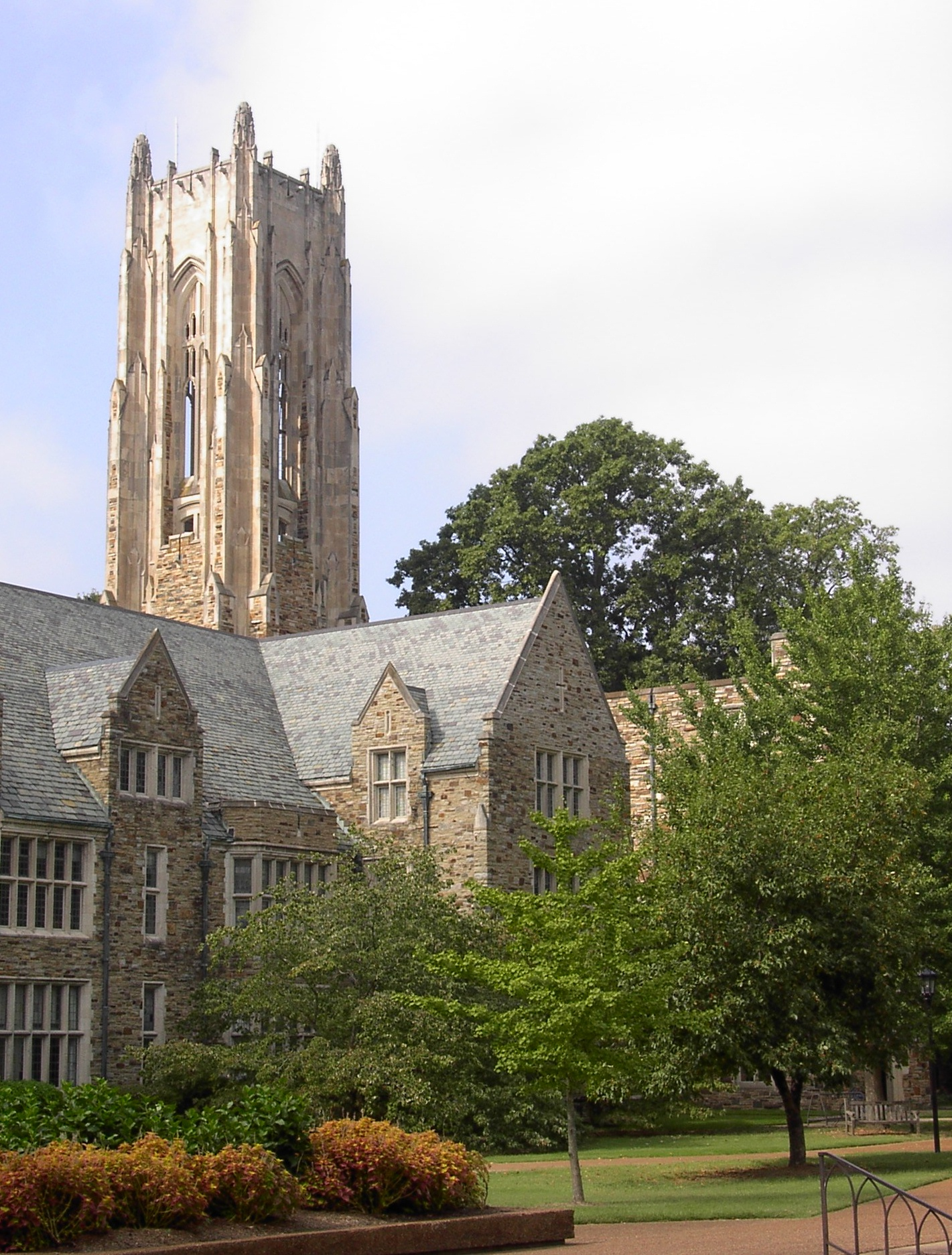 Halliburton Tower and Palmer Hall at Rhodes College, Memphis, Tennessee.